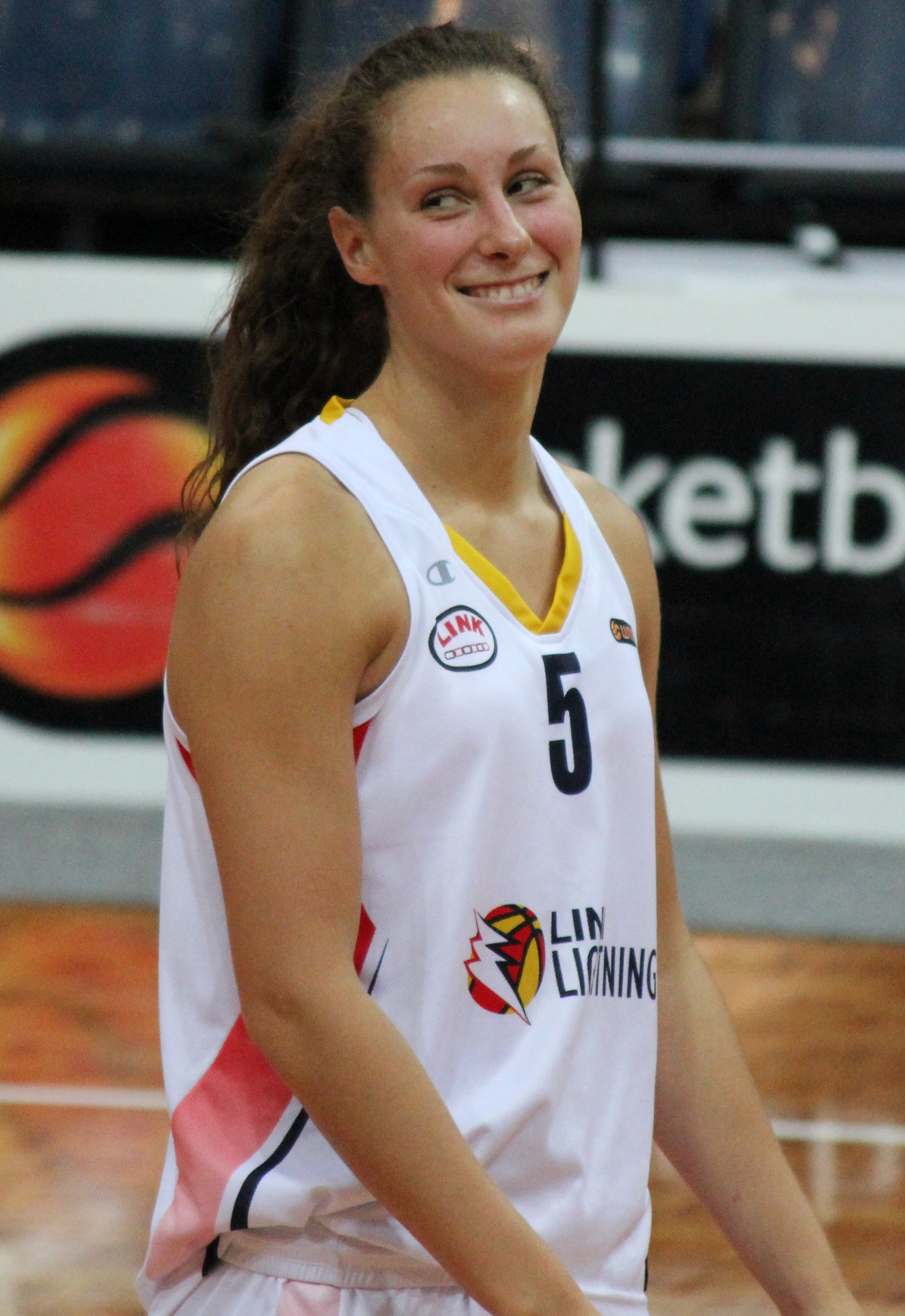 Canberra Capitals versus the Adelaide Lighting at the AIS Arena on 9 November 2012.